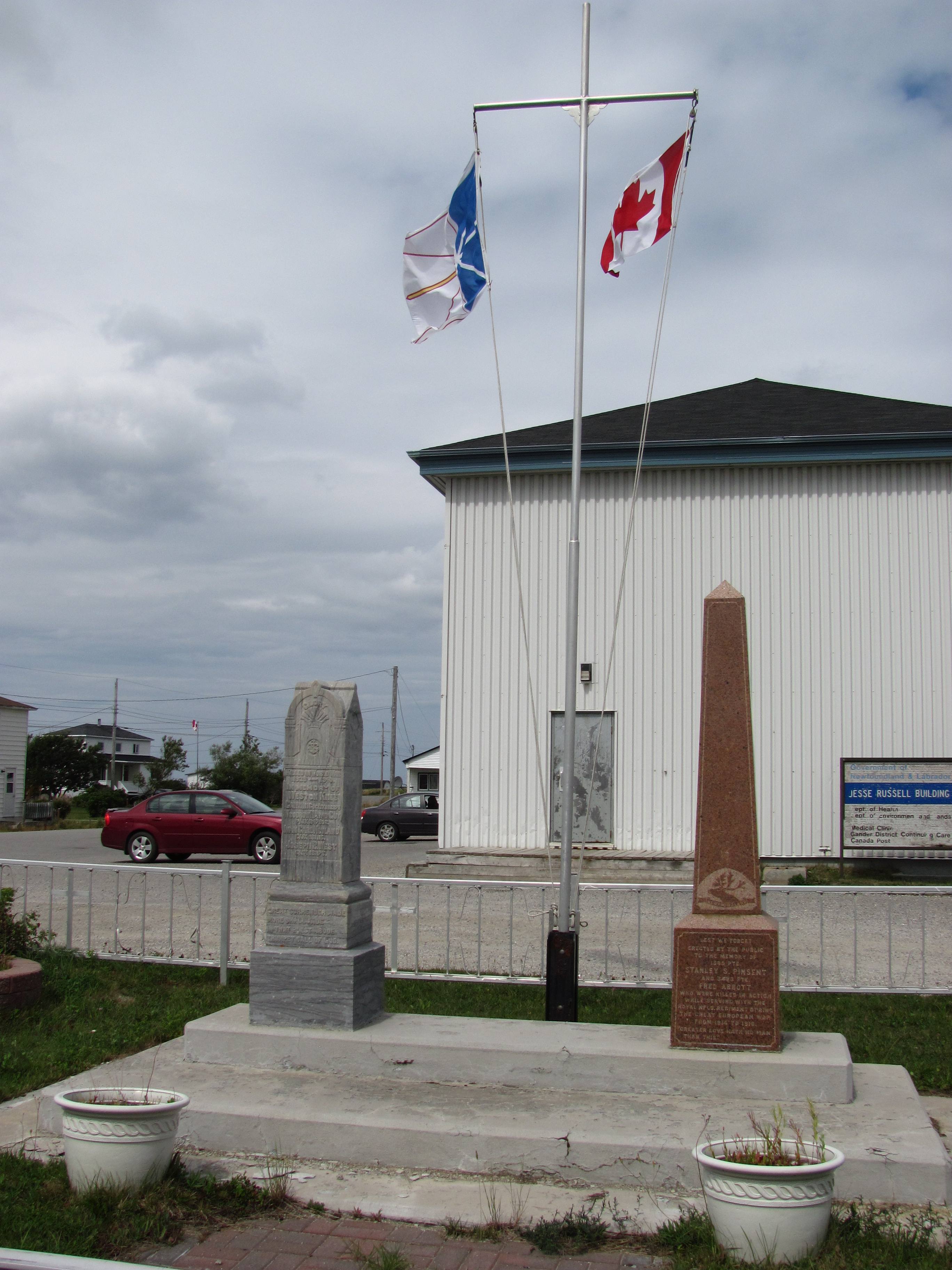 War Memorial, Musgrave Harbour, Newfoundland, Canada